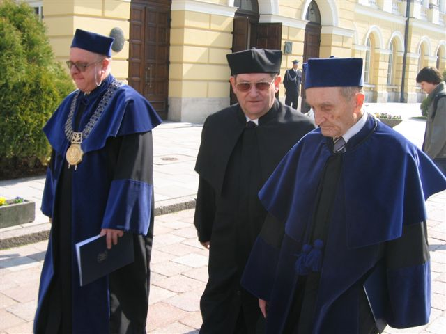 Norman Davies (b. 1939), British historian - Doctor Honoris Causa Warsaw University